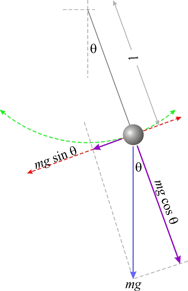 Diagram of a simple gravity pendulum.